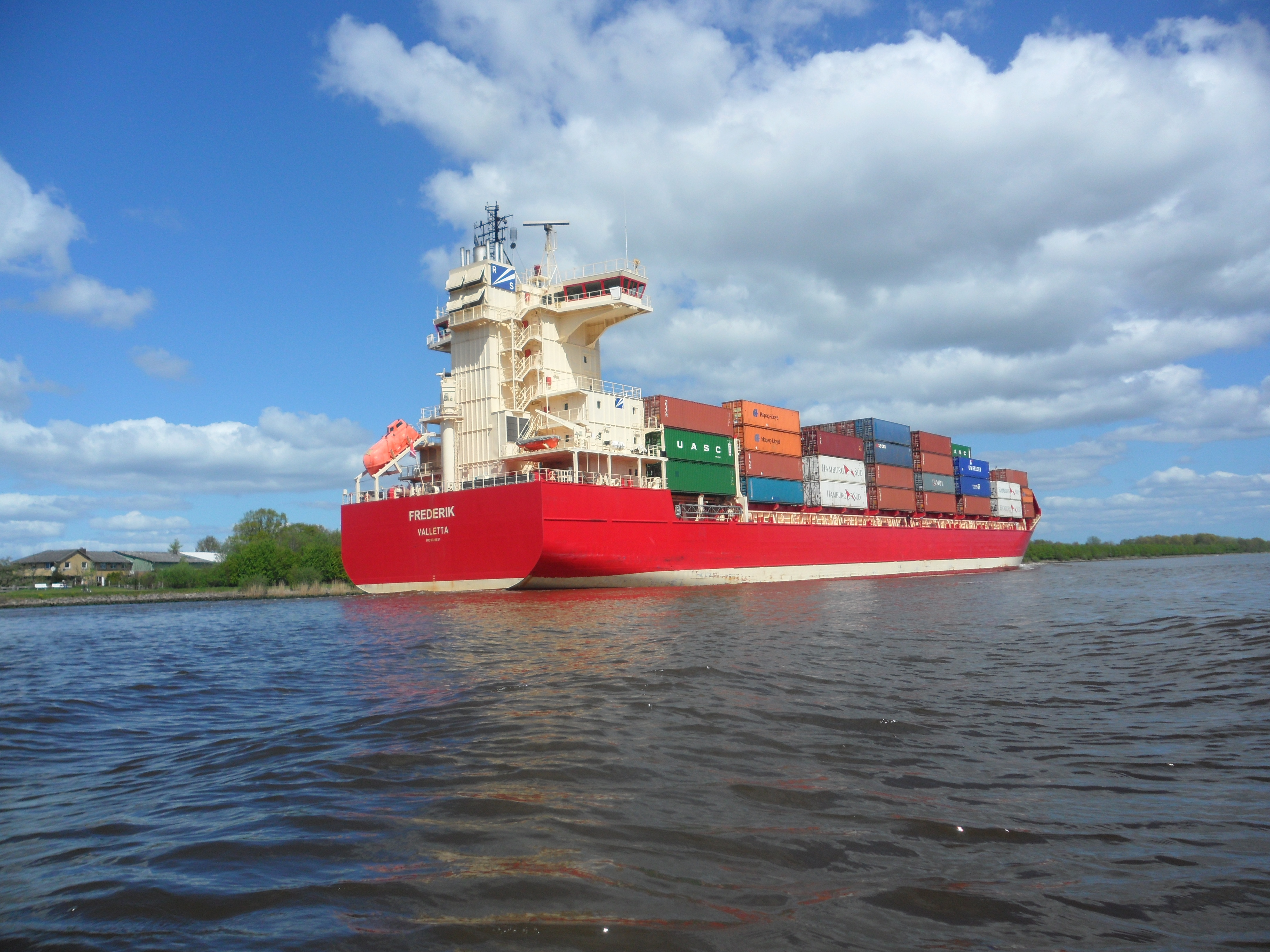 Containership Frederik, ex Maersk Rome, port of registry Valetta on the Kiel Cannel